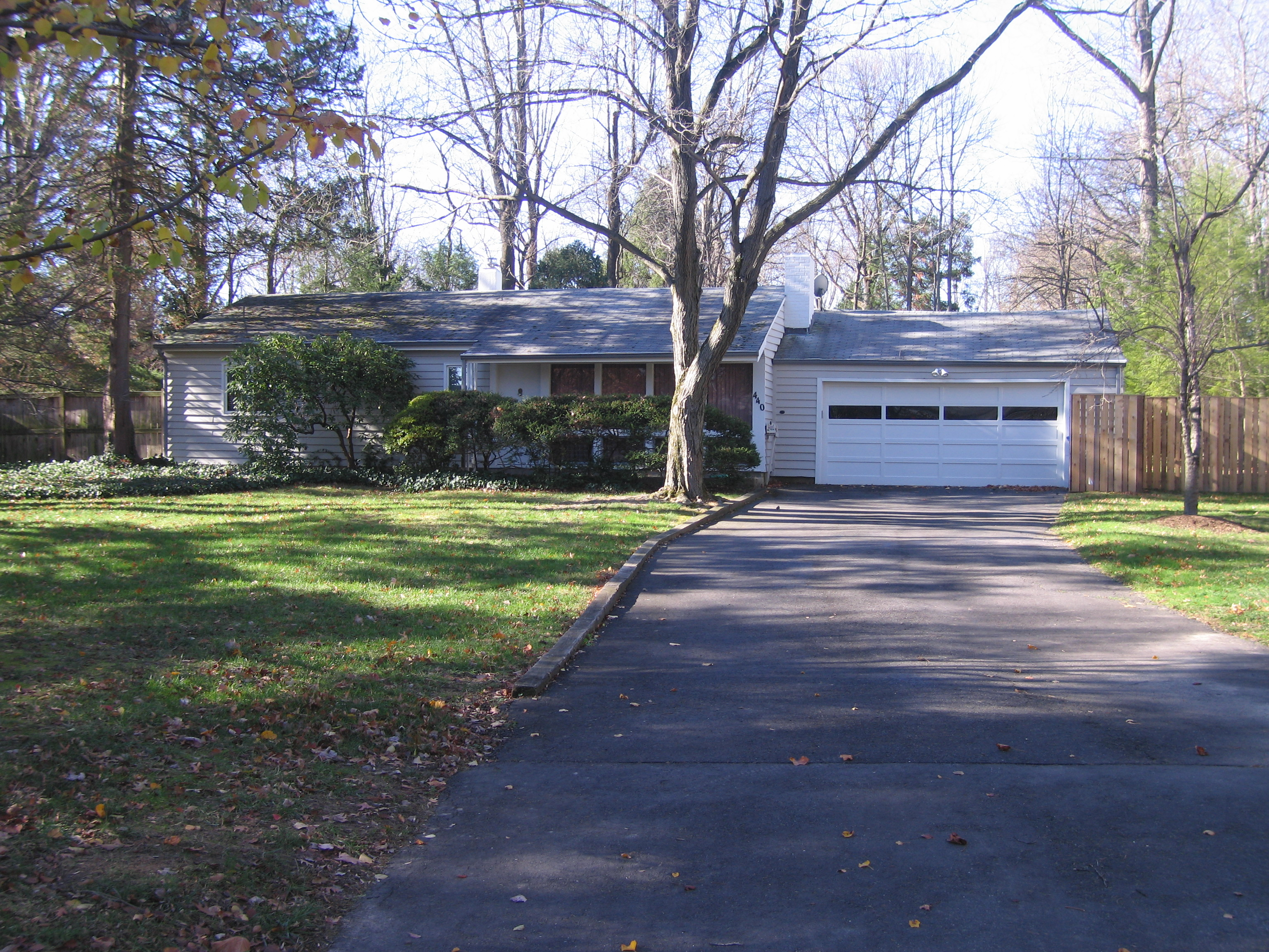 Trey Anastasio's childhood home